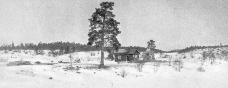 Small village of Nautsi, south of Petsamo, in the Finnish Lapland. A couple days before the Winter War ended, Soviet media claimed the Red Army conquered the "city" of Nautsi.